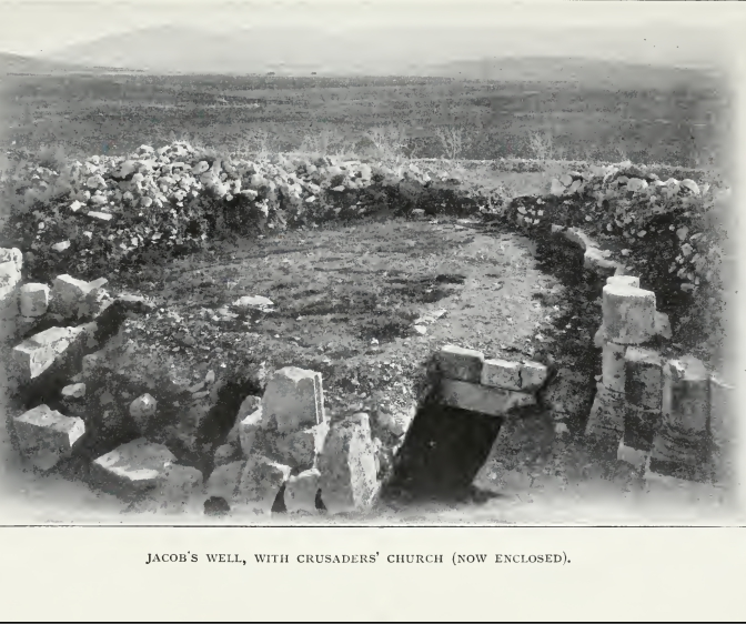 Jacob's Well, nablus 1913